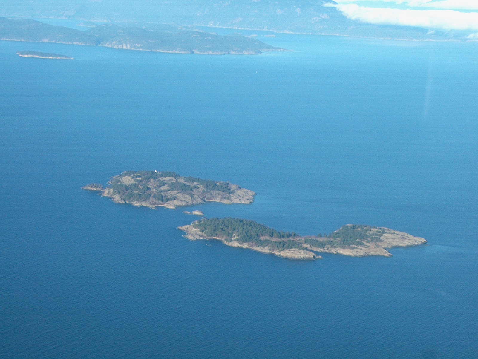 Aerial photograph I took myself of Ballenas Islands in the Strait of Georgia. Ballenas Light is on the top Island of the pair in the foreground. You can then see Sangster, then Lasqueti and then Texada Islands in the background. These islands are in the Straits of Georgia between Vancouver Island and mainland British Columbia, Canada. This photo is taken facing North.